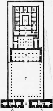 Plan of the Temple of Edfu.AA, Pylon.B, Entrance door.C, Great Court.D, Hall of Columns.E, Second Hall.F, Hall of the Altar.G, Hall of the Centre.H, Sanctuary.KK, Storerooms. Illustration from 1911 Encyclopædia Britannica, article Architecture.